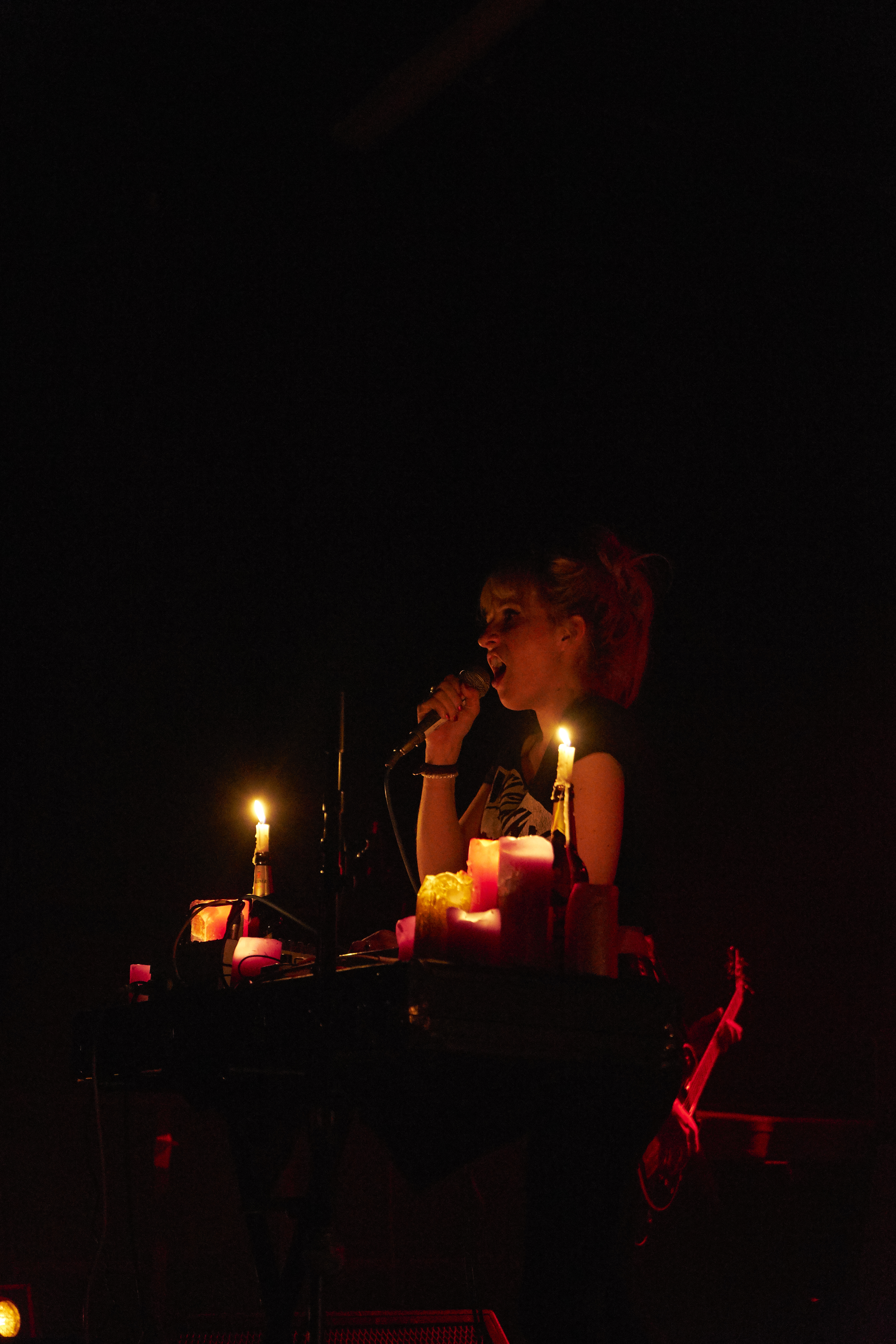 Monarch! at Droneberg Doom Festival, Berlin-Kreuzberg SO36, 16.04.2015 Festivalsommer This photo was created with the support of donations to Wikimedia Deutschland in the context of the CPB project "Festival Summer". Personality rights warningAlthough this work is freely licensed or in the public domain, the person(s) shown may have rights that legally restrict certain re-uses unless those depicted consent to such uses. In these cases, a model release or other evidence of consent could protect you from infringement claims.